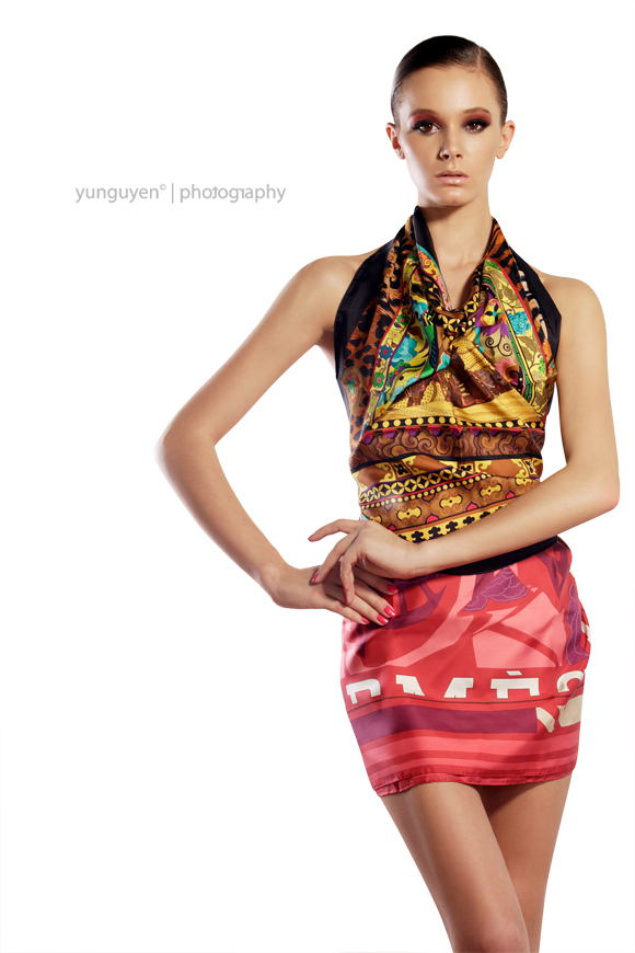 Model in Hermés scarves of two designs. Shot for Style Magazine